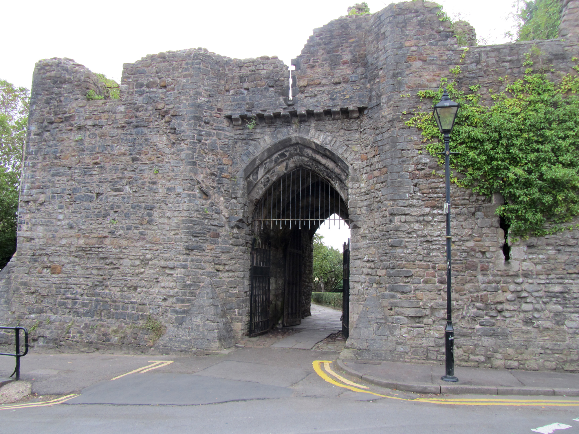 Ruins of the Bishop's Castle at Llandaff, Cardiff, Wales. The castle is thought to have been built by Bishop de Braose between 1265 and 1287 and thought to have been destroyed by Owain Glyndŵr.